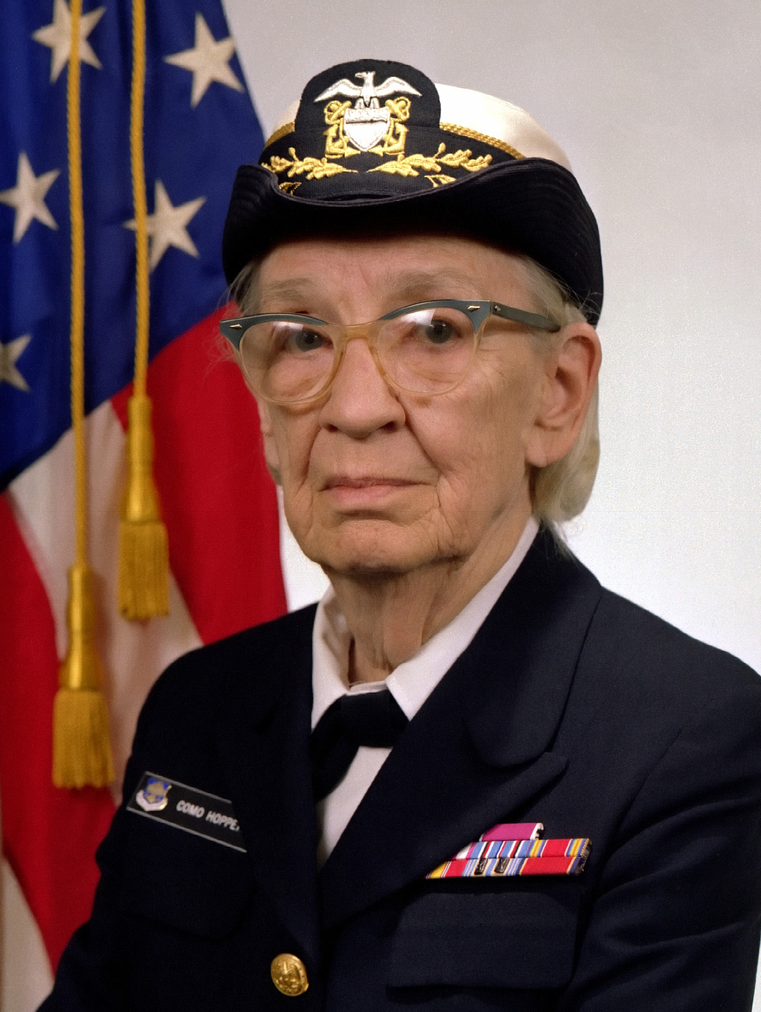 Commodore Grace M. Hopper, USN (covered).